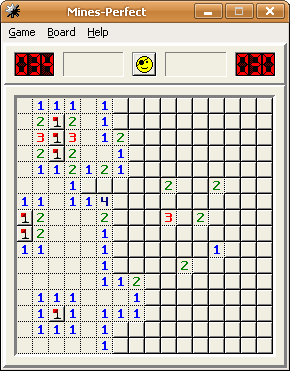 A screenshot of Mines-Perfect, a close alternative for Windows XP's Minesweeper game.